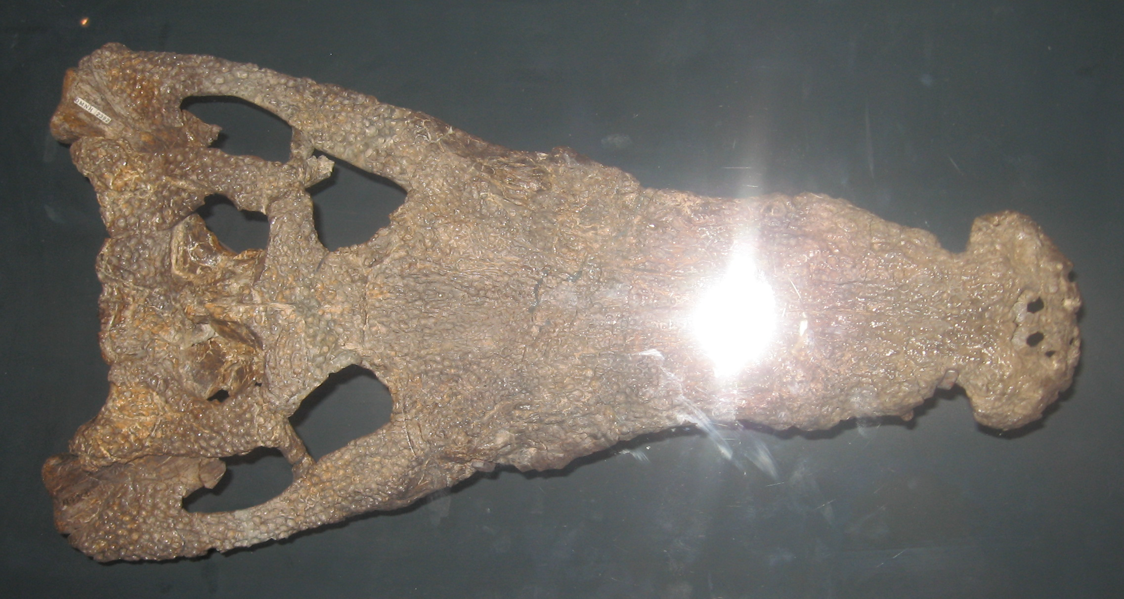 Amphicotylus (formerly "Goniopholis") stovalli skull (specimen OMNH 2392) at the Sam Noble Museum. Found in Cinnamon County, Oklahoma.